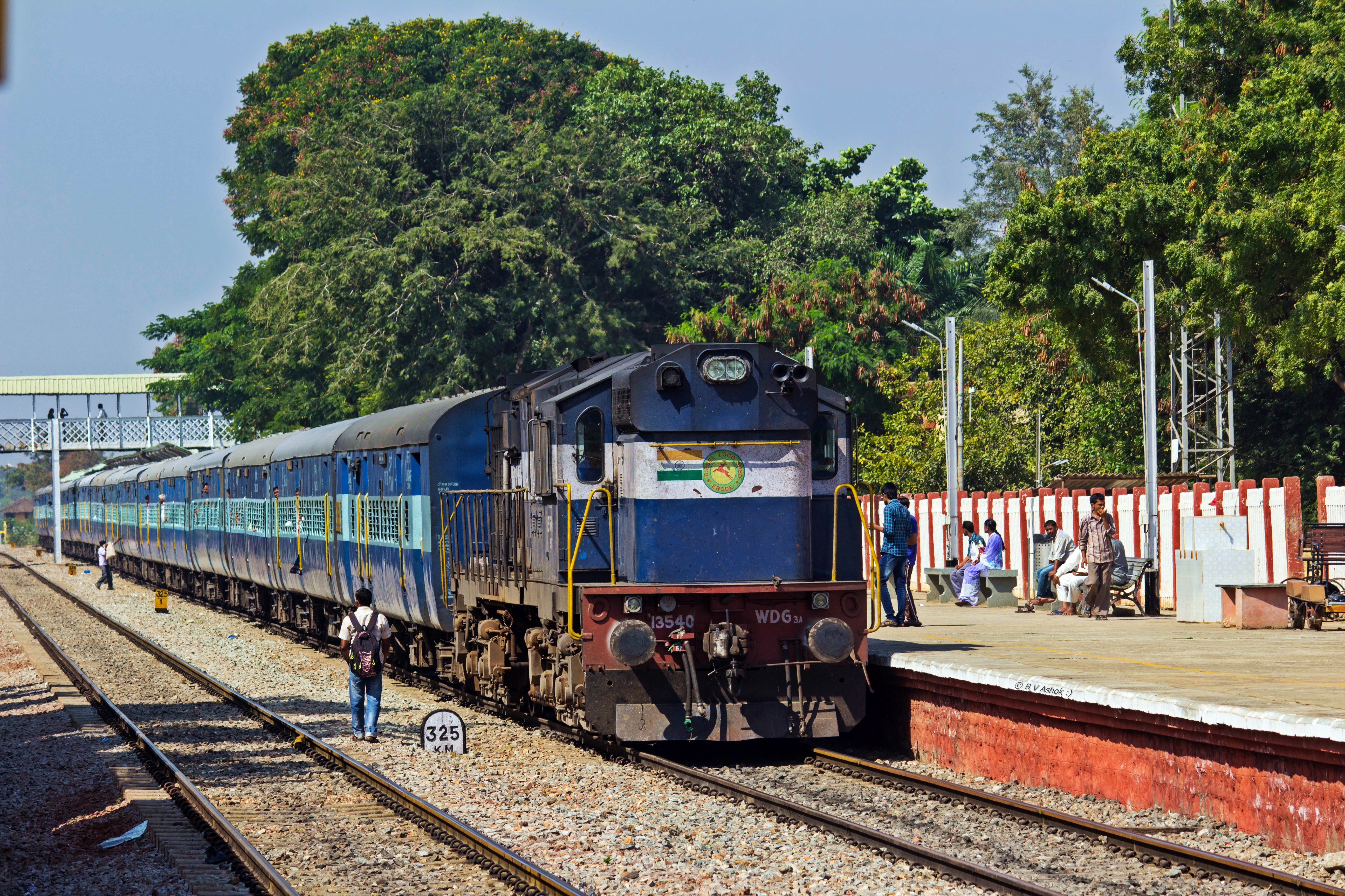 ED WDG-3A 13540 waiting for starter signal at platform 2 of Davanagere with 17325 Hubballi - Mysore Vishwamanava Express....